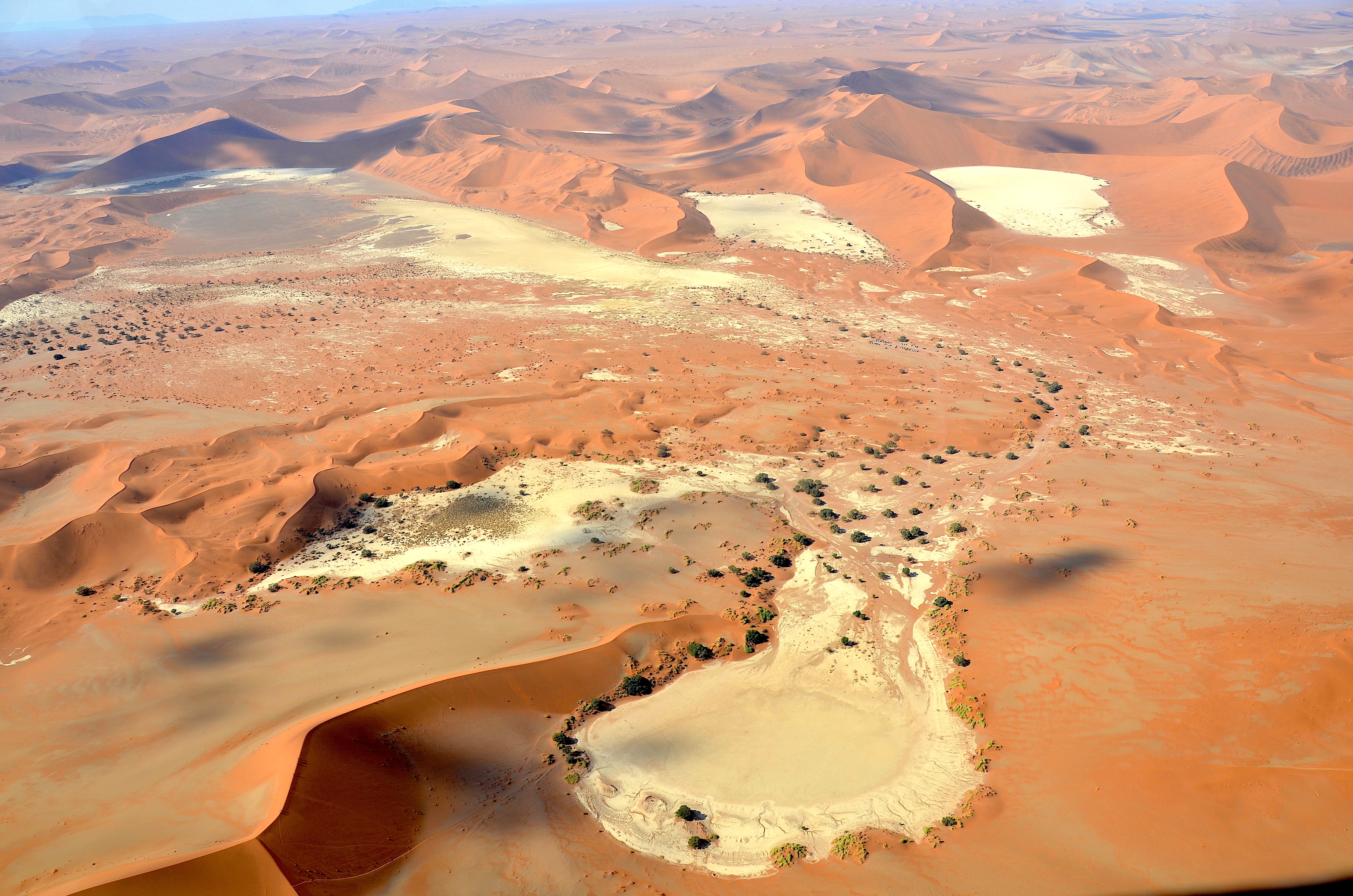 Sossusvlei and Deadvlei at Tsauchab river (2017)